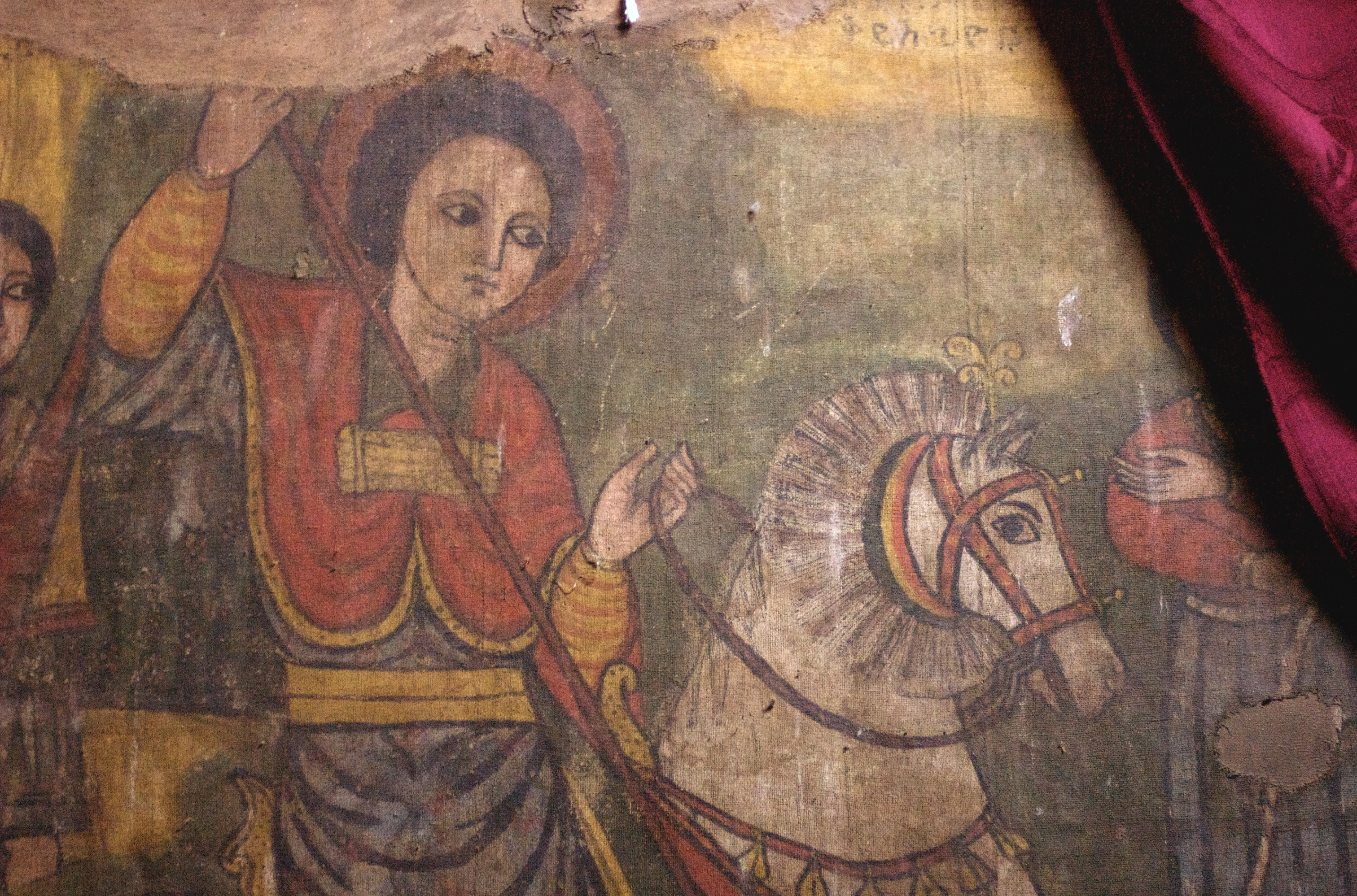 EDIT: the church paintings of Lalibela date to the 12th-13th century AD. See the following source: Teferi, Dawit (2015) [1995], "A Short History of Ethiopian Church Art", in Briggs, Philip, Ethiopia, Chalfont St Peter: Bradt Travel Guides, p. 242, ISBN 978-1-84162-922-3. This is just part of a panel depicting St. George slaying the dragon. This photo focuses on St. George, his perky horse, and his lance. Can you guess what's in the next photo? Because St. George is Ethiopia's patron saint, paintings depicting this story are found in most Ethiopian Christian Orthodox churches. However, this painting is perhaps more significant than others of its kind because of its location in Lalibela's Church of Bet Giorgis, whch is dedicated to St. George. There's a bit more to the story than that, but it will have to wait until I post photos of the church's magnificent and iconic exterior. To my untutored eye, this painting looks quite old. It is less elaborately rendered than the paintings in the churches and monasteries at Lake Tana, which I believe date to the 18th century. I'm not sure what to do with that information. A simpler style could mean the painting is older than the ones at Lake Tana. Conversely, the coarser style could mean the piece was executed after Ethiopian religious art reached its zenith at Lake Tana (a proposition I've more or less made up on the spot). Since this painting is at Lalibela, which predates the churches and monasteries at Lake Tana by centuries, I will speculate this painting is earlier than the 18th century. But, bearing in mind that the Ethiopian empire's fortunes and territorial holdings ebbed and waned frequently over the centuries, with incursions from hostile forces, including Islamic armies, I'm the last person who'd know whether any given painting in a church in Lalibela has been there for 700 years or 70. If any flickerites can offer more information about this painting, including its age and provenance, I'd be grateful.